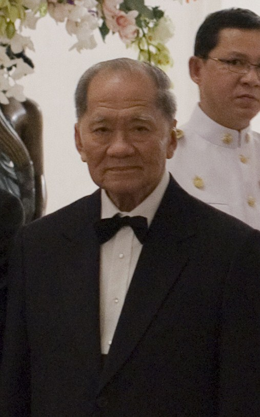 นาย ธานินทร์ กรัยวิเชียร / นายกรัฐมนตรี และภริยา เข้าเฝ้าทูลละอองพระบาท สมเด็จพระเทพรัตนราชสุดาฯ สยามบรมราชกุมารี ในงานพระราชทานเลี้ยงอาหารค่ำแก่ผู้ได้รับพระราชทานรางวัลสมเด็จเจ้าฟ้ามหิดล ประจำปี 2553 และกล่าวเชิญชวนดื่มถวายพระพร ณ พระที่นั่งบรมราชสถิตยมโหฬาร ในพระบรมมหาราชวัง วันพุธ ที่ 26 มกราคม พ.ศ.2554 (Photographer attached to the Prime Minister of the Kingdom of Thailand : Peerapat Wimolrungkarat / พีรพัฒน์ วิมลรังครัตน์) @is50mm